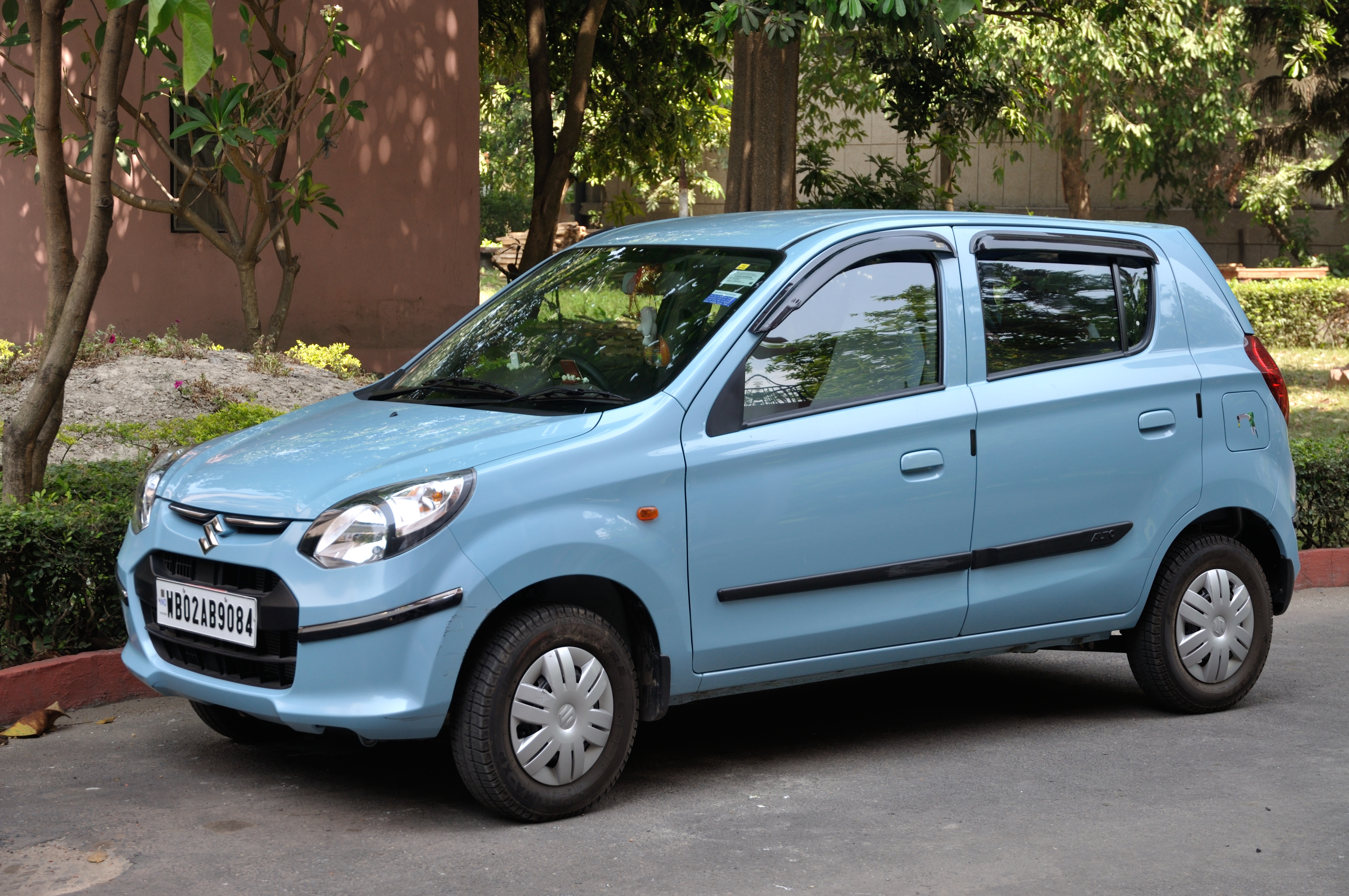 Photographed in greater Kolkata.